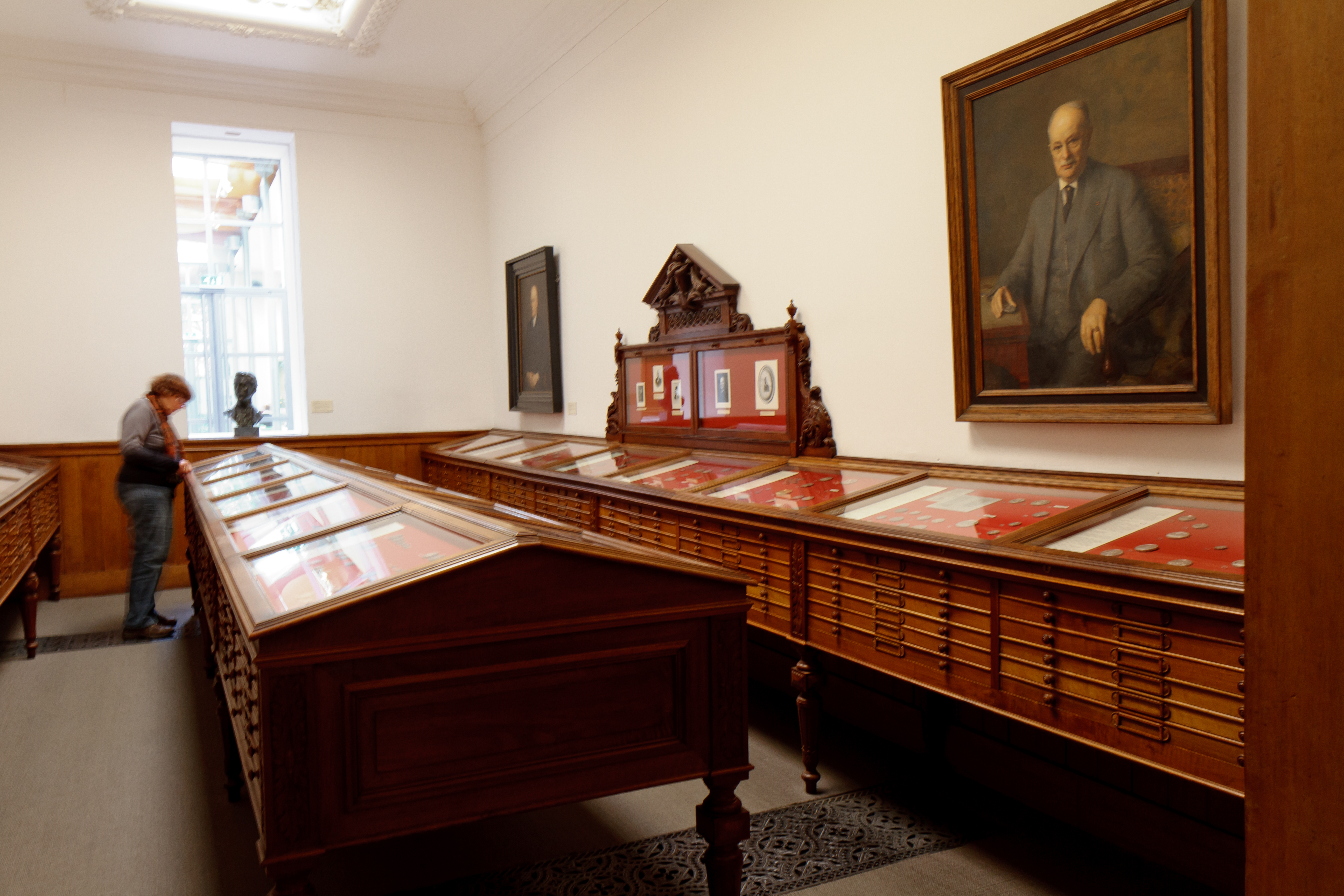 Teylers Challenge, visit to the museum on 28 April, 2012